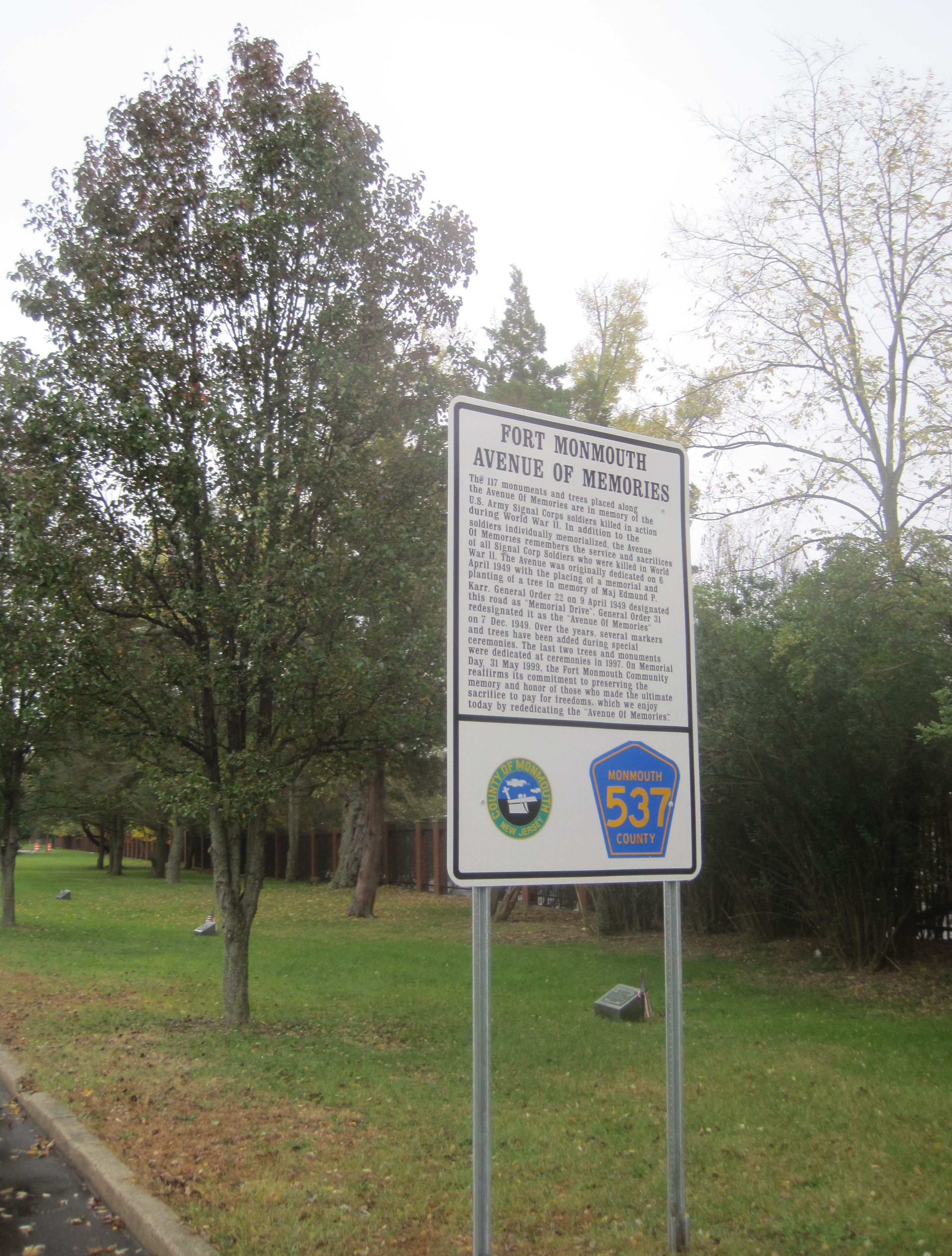 Photo of sign describing the Avenue of Memories within the confines of the former Fort Monmouth in Eatontown, New Jersey, taken along County Route 537. Photo shows some of the trees and monuments that honor lives lost from the U.S. Army Signal Corps in World War II.